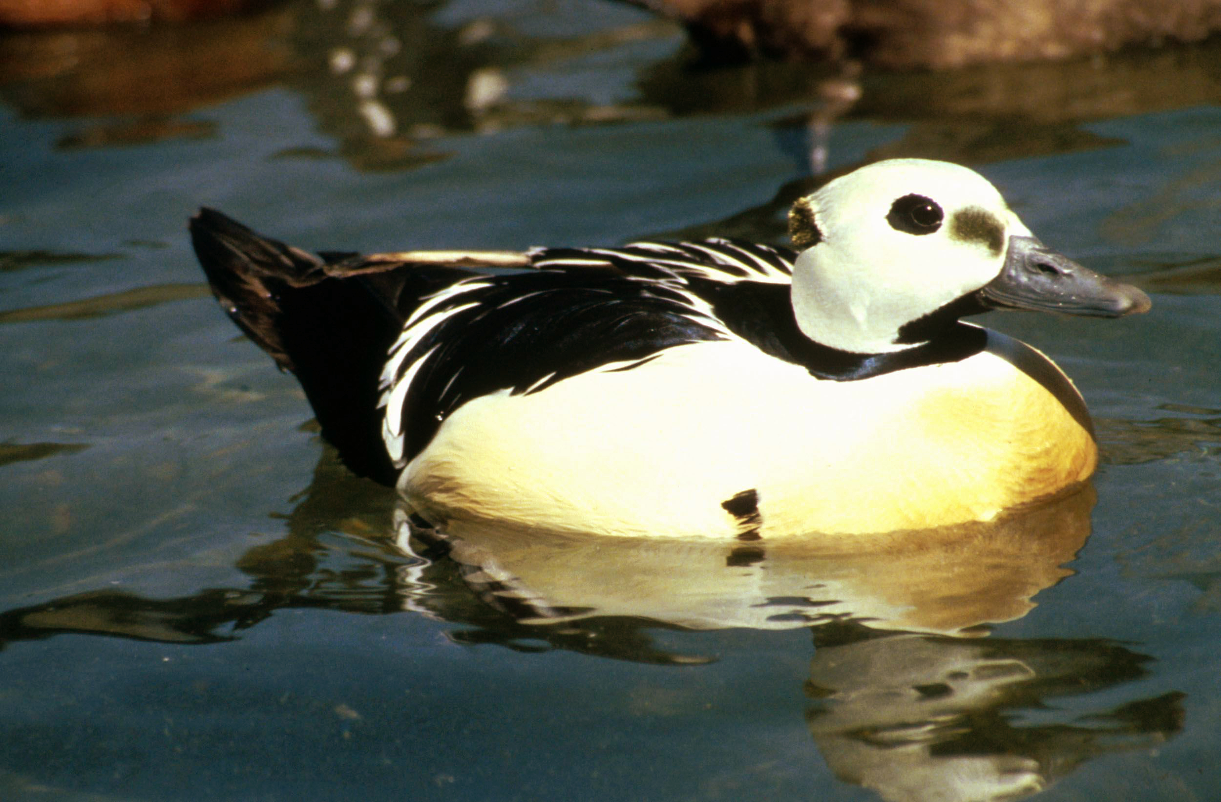 Steller's Eider, male (Polysticta stelleri)